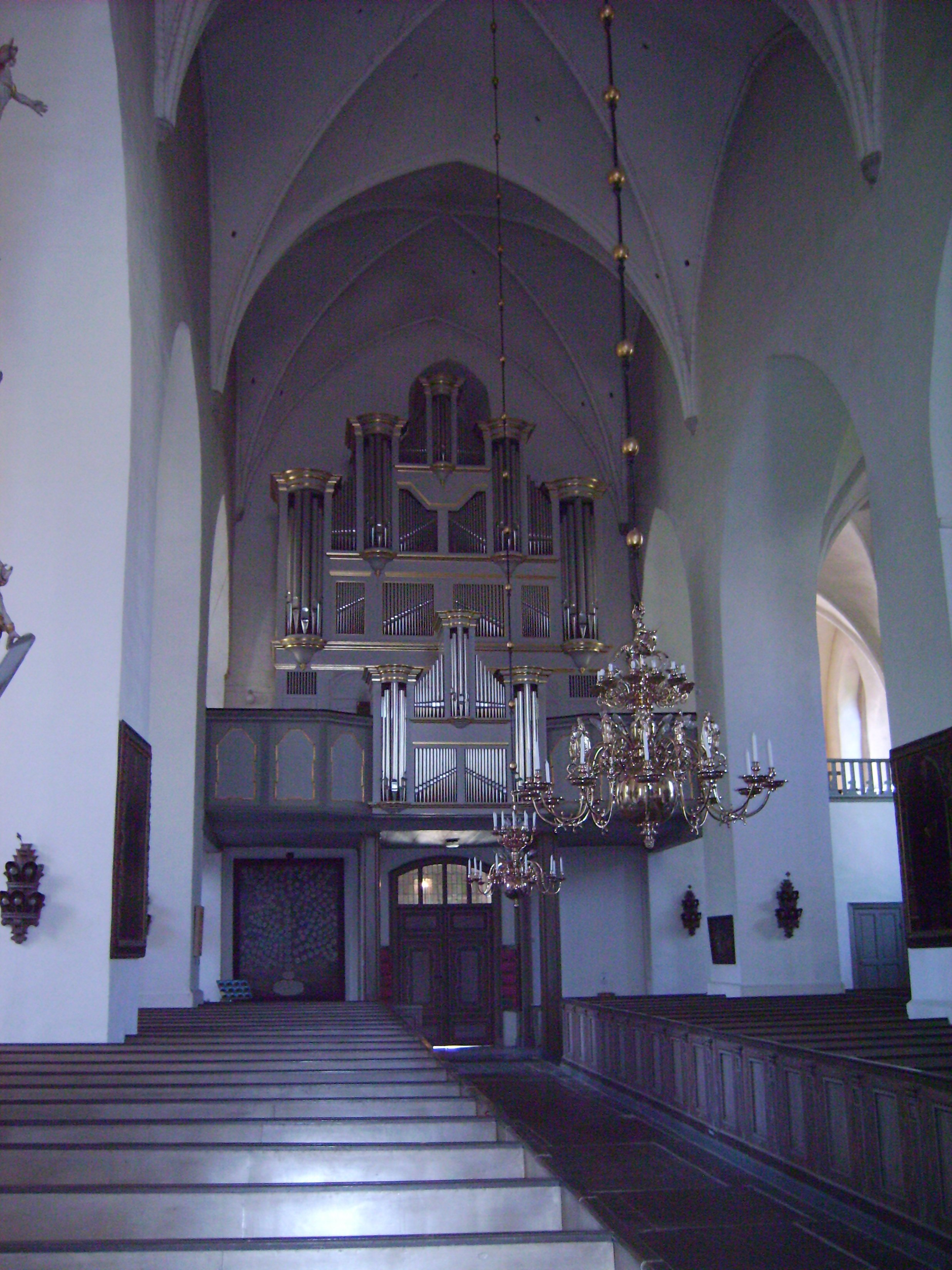 The Middle Age church ”Vårfrukyrkan” in Skänninge, built around 1300 by the German population in the town, the Swedish population had a different church, but after the Reformation this is the only church left in the town, churches and monasteries destroyed by the Swedish king Gustaf Vasa around 1550, when he need stones to his new castle in Vadstena.